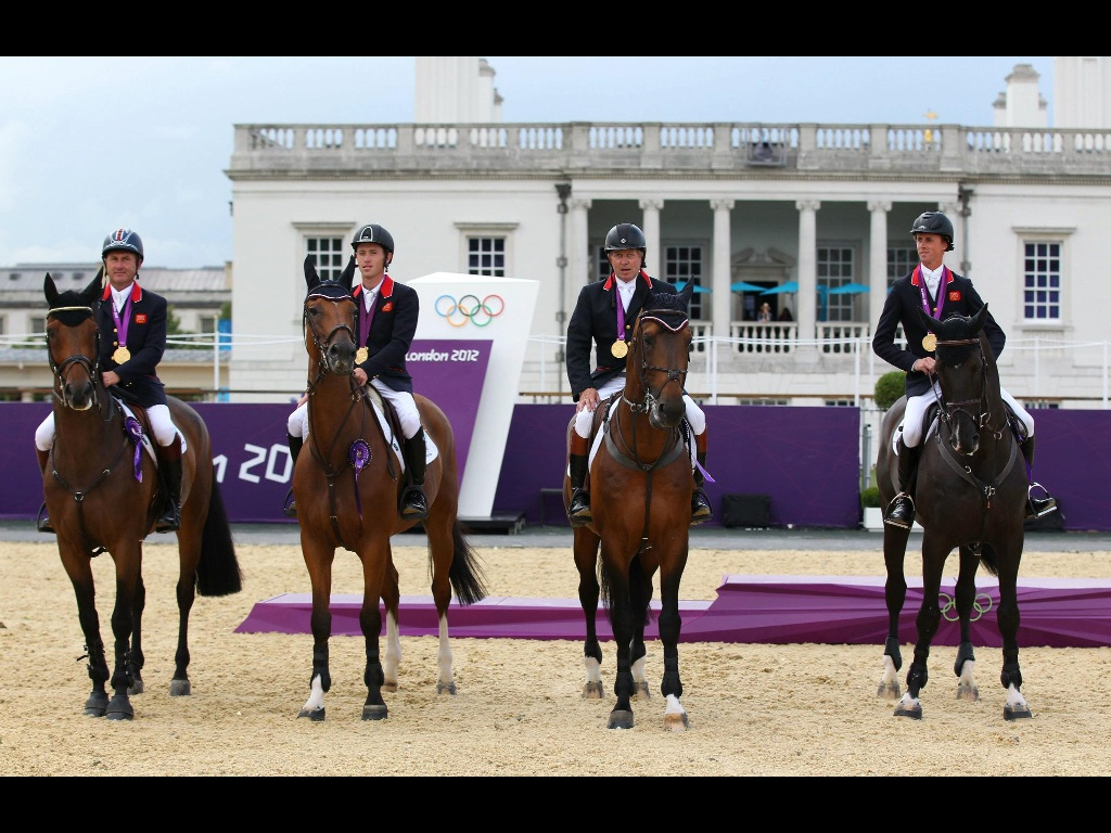 Gold medal line up equestrian show jumping 2012 games